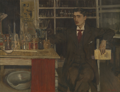 Robert Goldschmidt in 1896